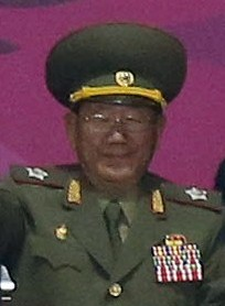 Incheon Asian Games 2014 Closing Ceremony October 4, 2014 Incheon Asiad Main Stadium, Incheon-si Ministry of Culture, Sports and Tourism Korean Culture and Information Service ( Official Photographer : Jeon Han This official Republic of Korea photograph is CC-BY-SA-2.0-licensed, so while restrictions such as personality or privacy rights may apply, in general, manipulations are allowed. If you require a photograph without a watermark, please use Flickr e-mail.